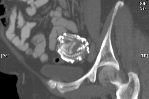 "76 year-old female suffering from cervical neoplasm, total abdominal hysterectomy was performed for the lesion and the lithopedion was found incidentally. The patient's history was unremarkable, and laboratory tests were normal. The patient recalled having experienced a severe abdominal pain about 50 years before. Her physician had felt "a benign tumor" in her pelvis at that time, indicating that the stone child had retained in the maternal peritoneal cavity for 50 years."